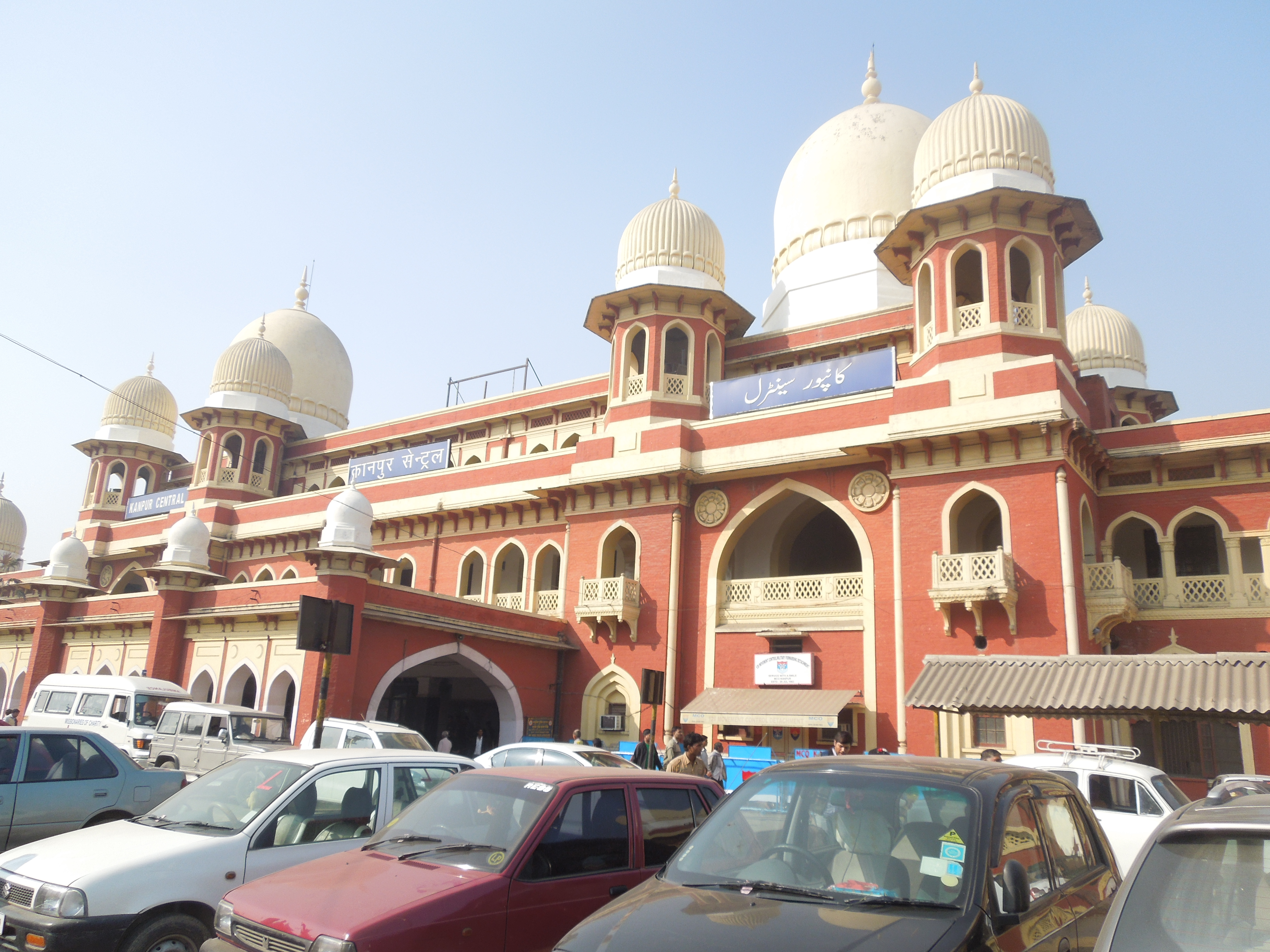 photo of Kanpur central